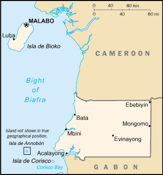 Equatorial guinea map